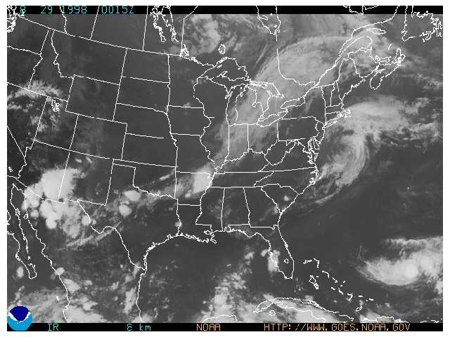 Satellite image of Hurricane Bonnie